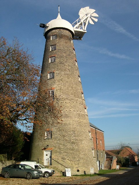 Moulton Windmill, Lincolnshire - The tallest surviving in the UK, now under restoration